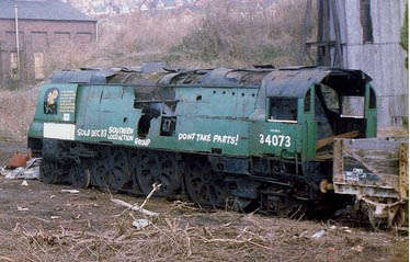 Woodham's Scrapyard, Barry. Only part of original photograph used.